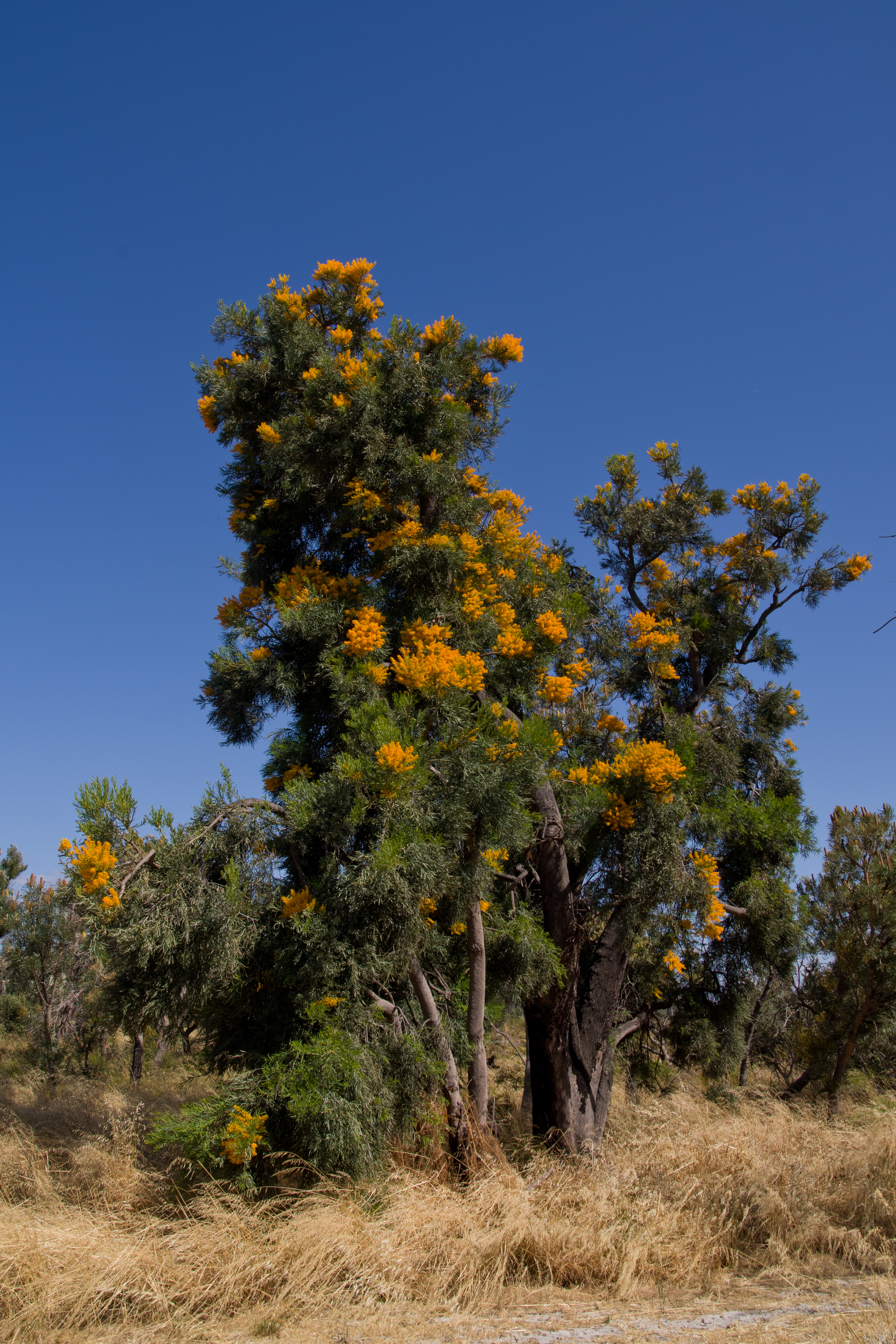 Beeliar Regional Park moodjars, christmas tree or Nuytsia floribunda